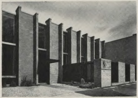 Office and warehouse for Makower McBeath & Co. Pty. Ltd., Bouverie St, Carlton (Melb).